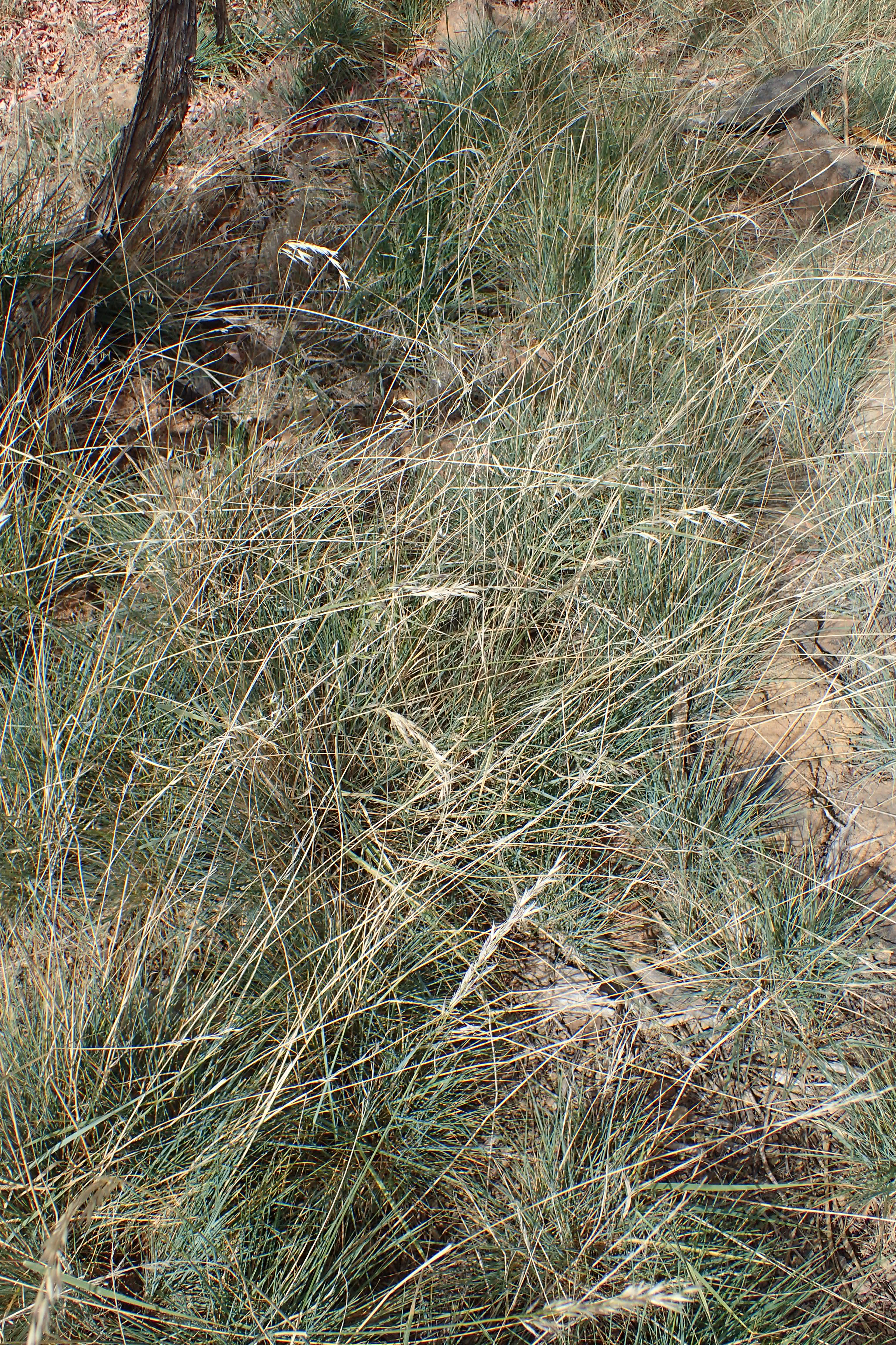 Arrhenatherum calderae in Los Canadas del Teide, Tenerife